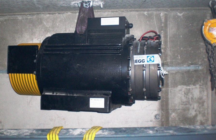 Zetatop synchronous motor